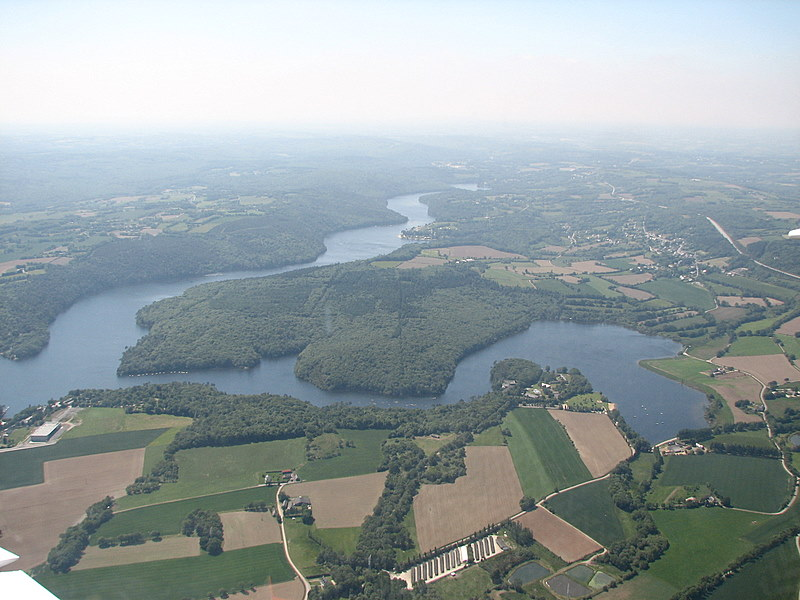 Guerlédan lake (France), airborne photograph